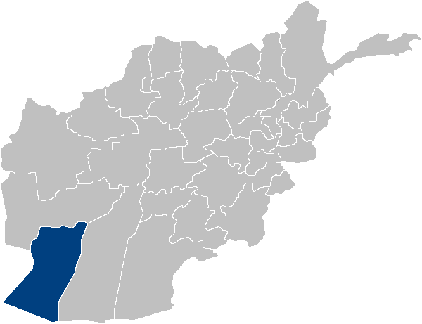 Location map for Nimruz Province in Afghanistan. Original map source: Image:Afghanistan_provinces_blank.png